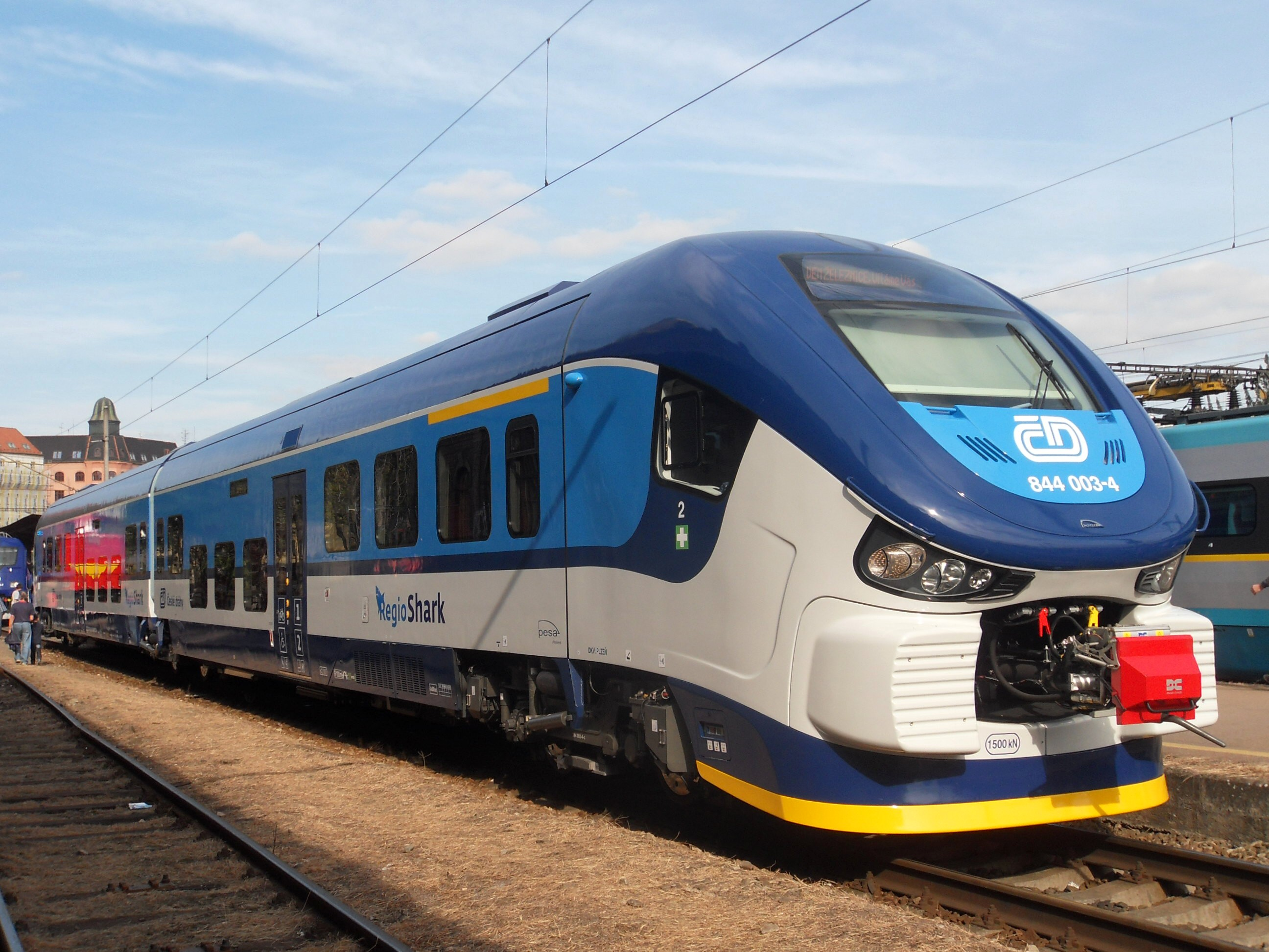 Railway day 2012 - 844.003 diesel multiple unit of České dráhy, Brno main station, Czech Republic